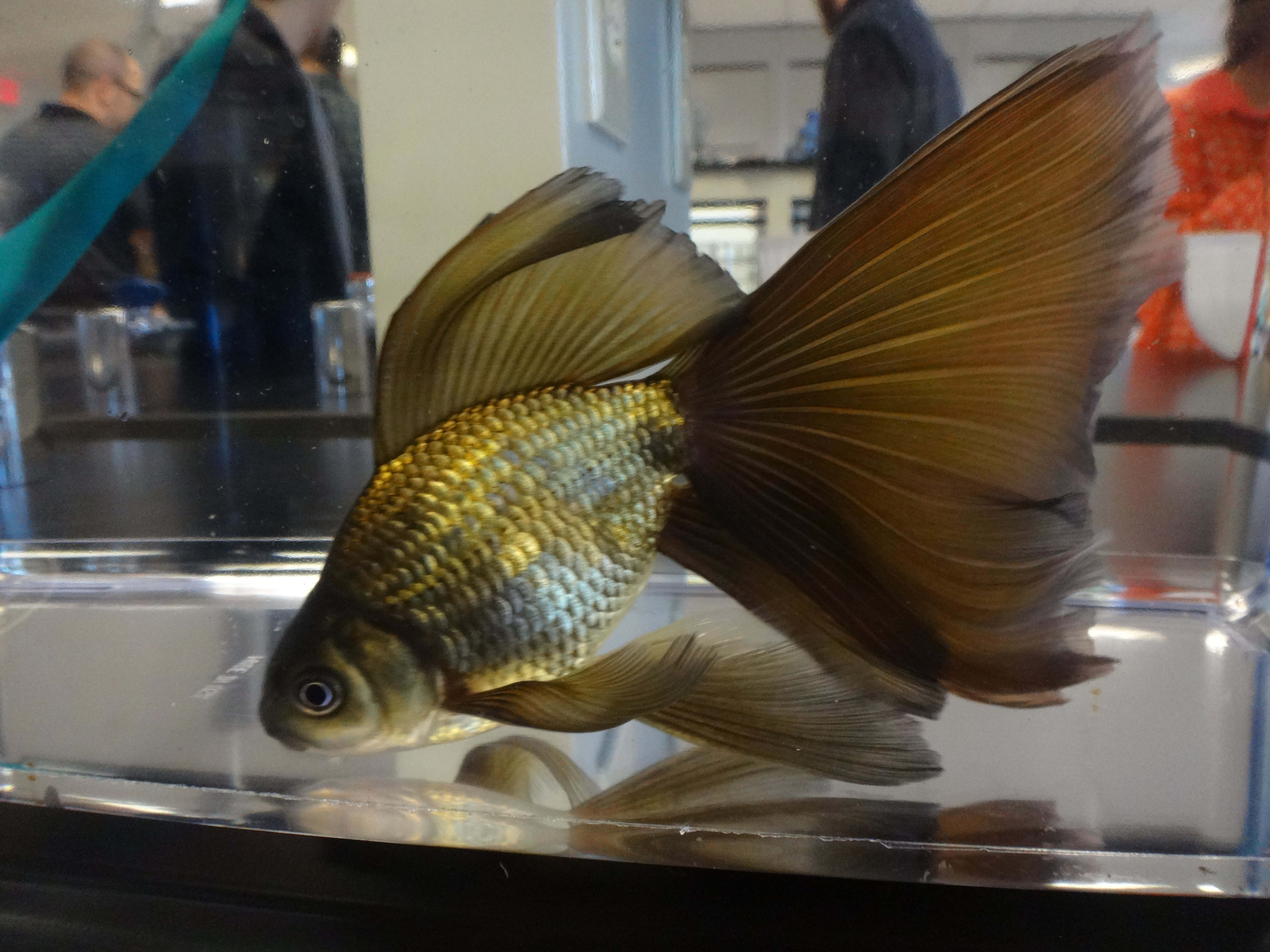 uncolored Philadelphia Veiltail Goldfish